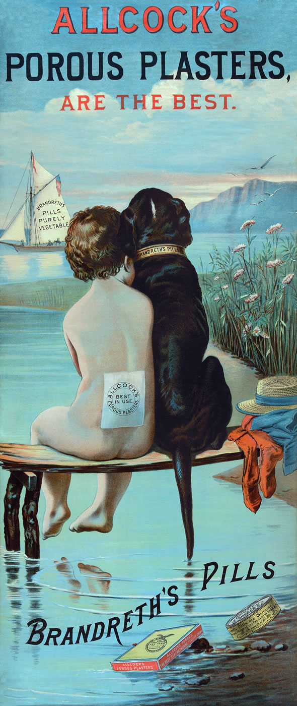 Poster advertising Brandreth's Pills and Allcock's Porous Plasters, popular 19th-century patent medicines.